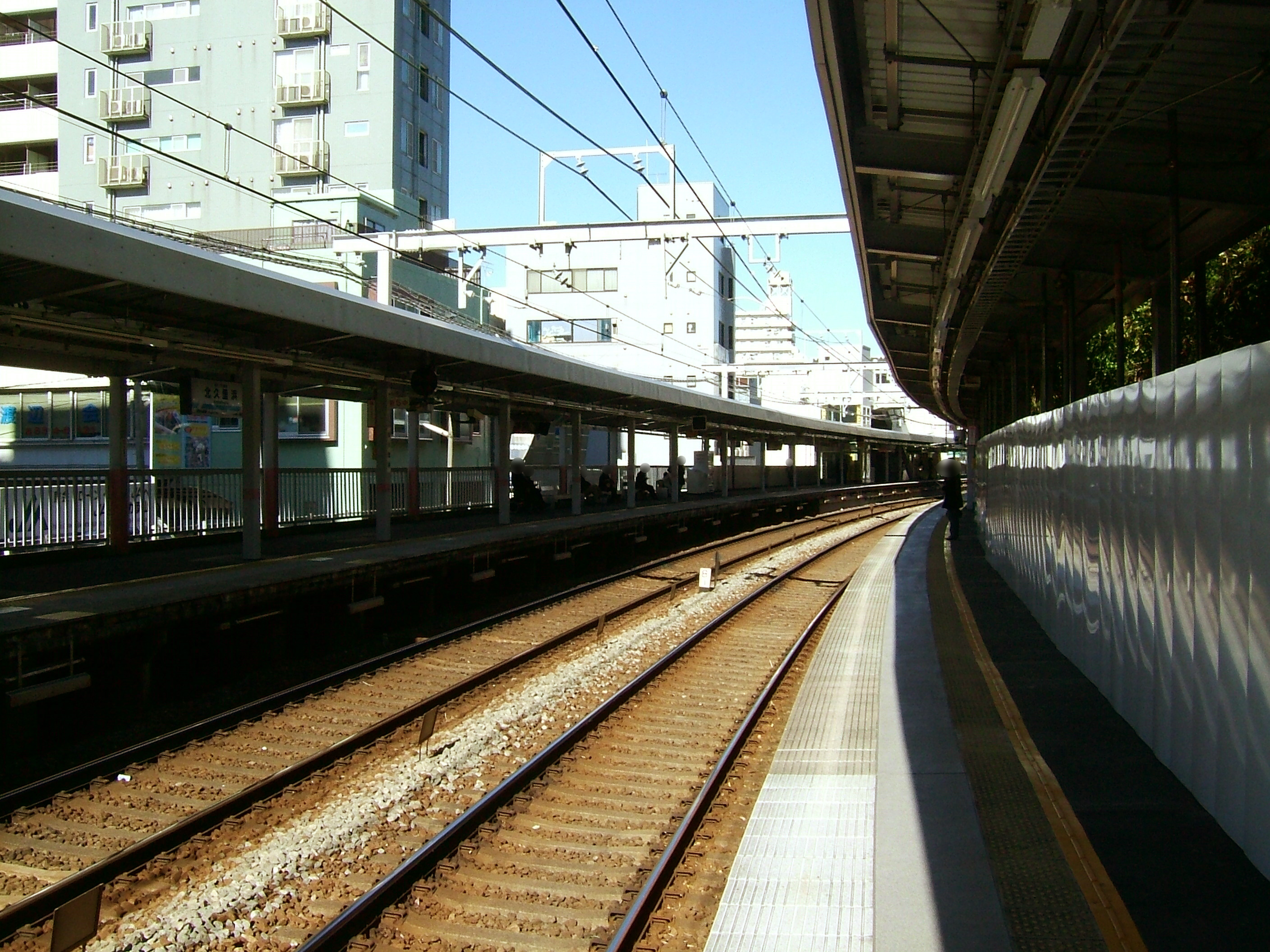 Kita-Kurihama Station platform (Keihin Electric Express Railway Kurihama Line)